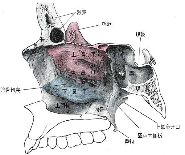 Lateral wall of nasal cavity, showing ethmoid bone in position.